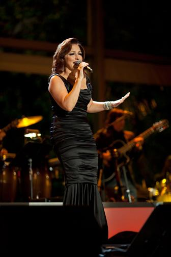 Singer Gloria Estefan performs at the "In Performance at the White House: Fiesta Latina," a concert celebrating Hispanic musical heritage held on the South Lawn, Oct. 13, 2009.